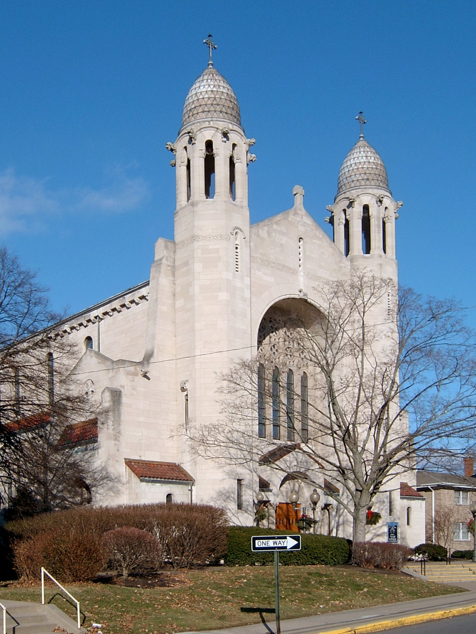 Church of the Assumption (architect Leo McMullen), Bellevue